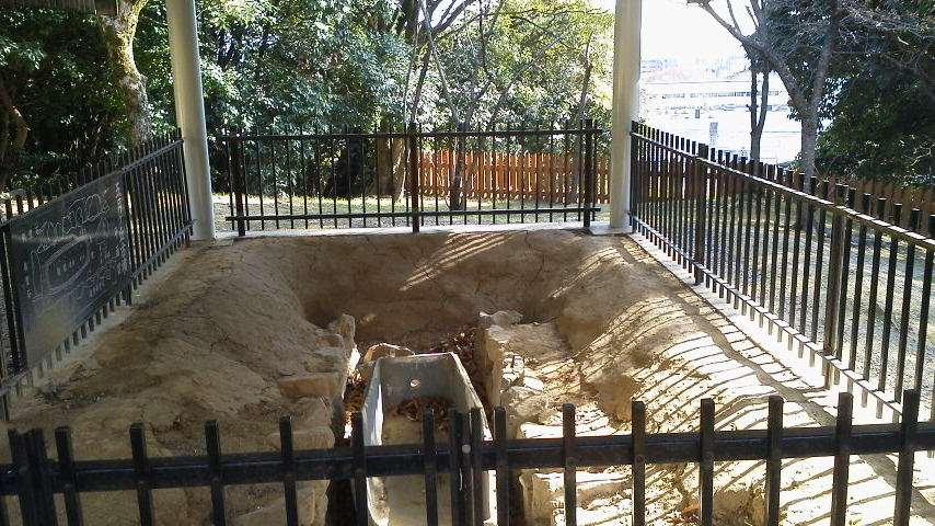 大阪府池田市の五月山古墳です